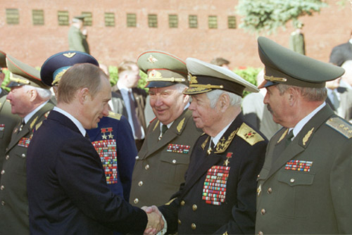 RED SQUARE, MOSCOW. President Putin congratulates veterans on Victory Day.